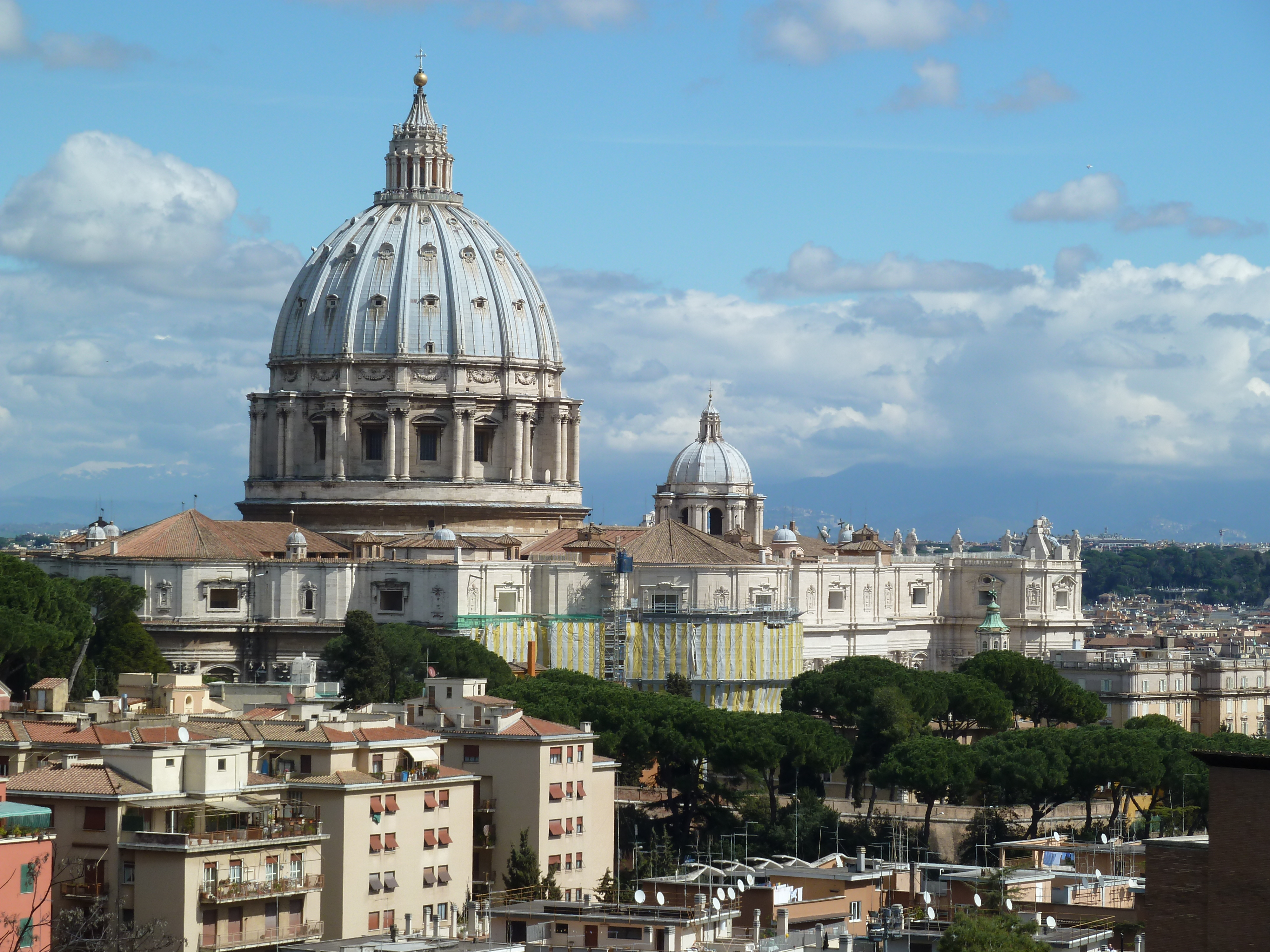 Saint Peter's Basilica in view of OFM General Curia